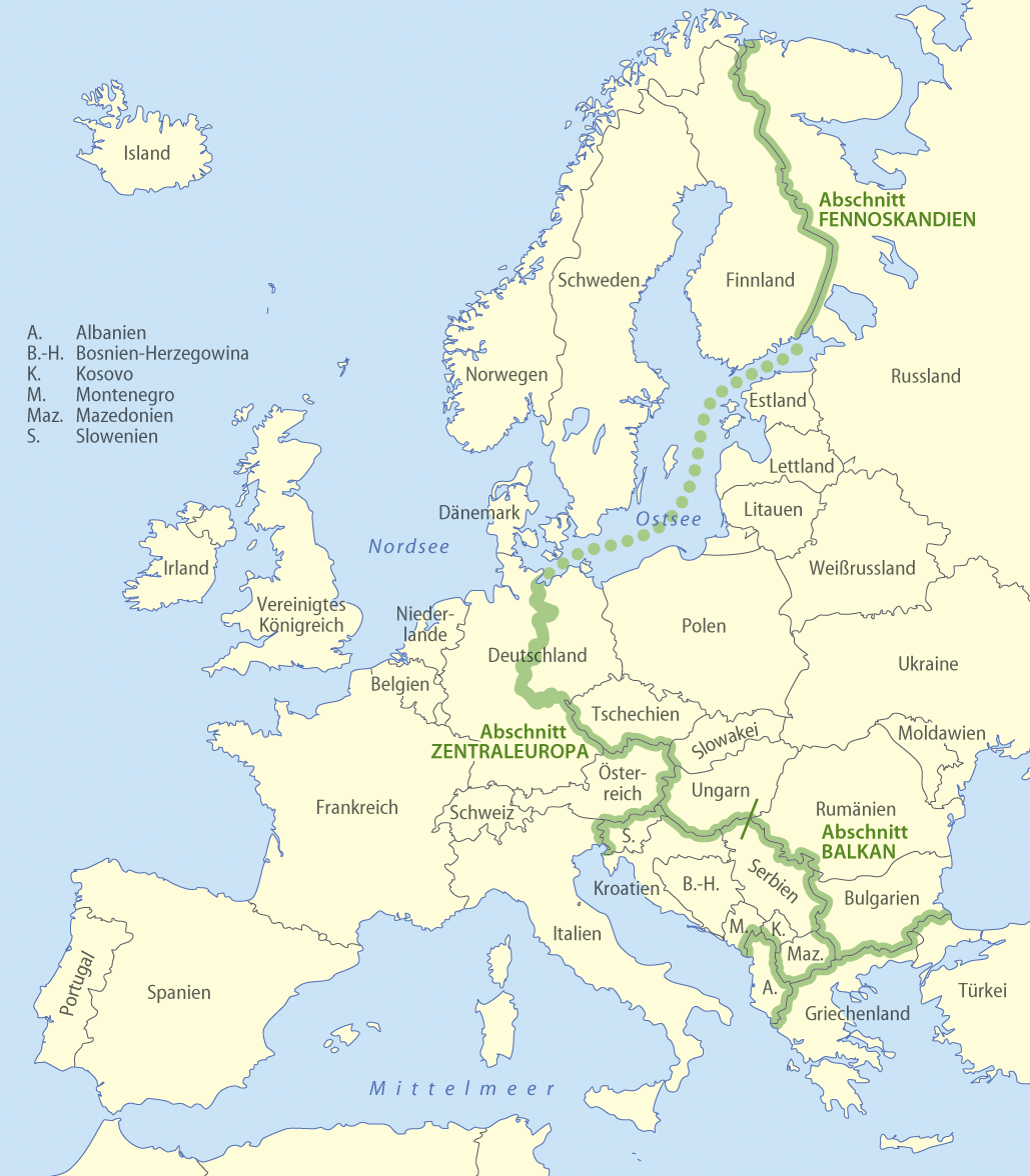 European Green Belt